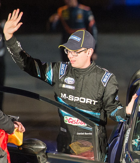 Co-driver Daniel Barritt at the 2014 Rallye Deutschland